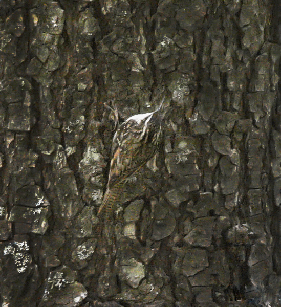 Bar-tailed Treecreeper Certhia himalayana in Kullu District of Himachal Pradesh, India.